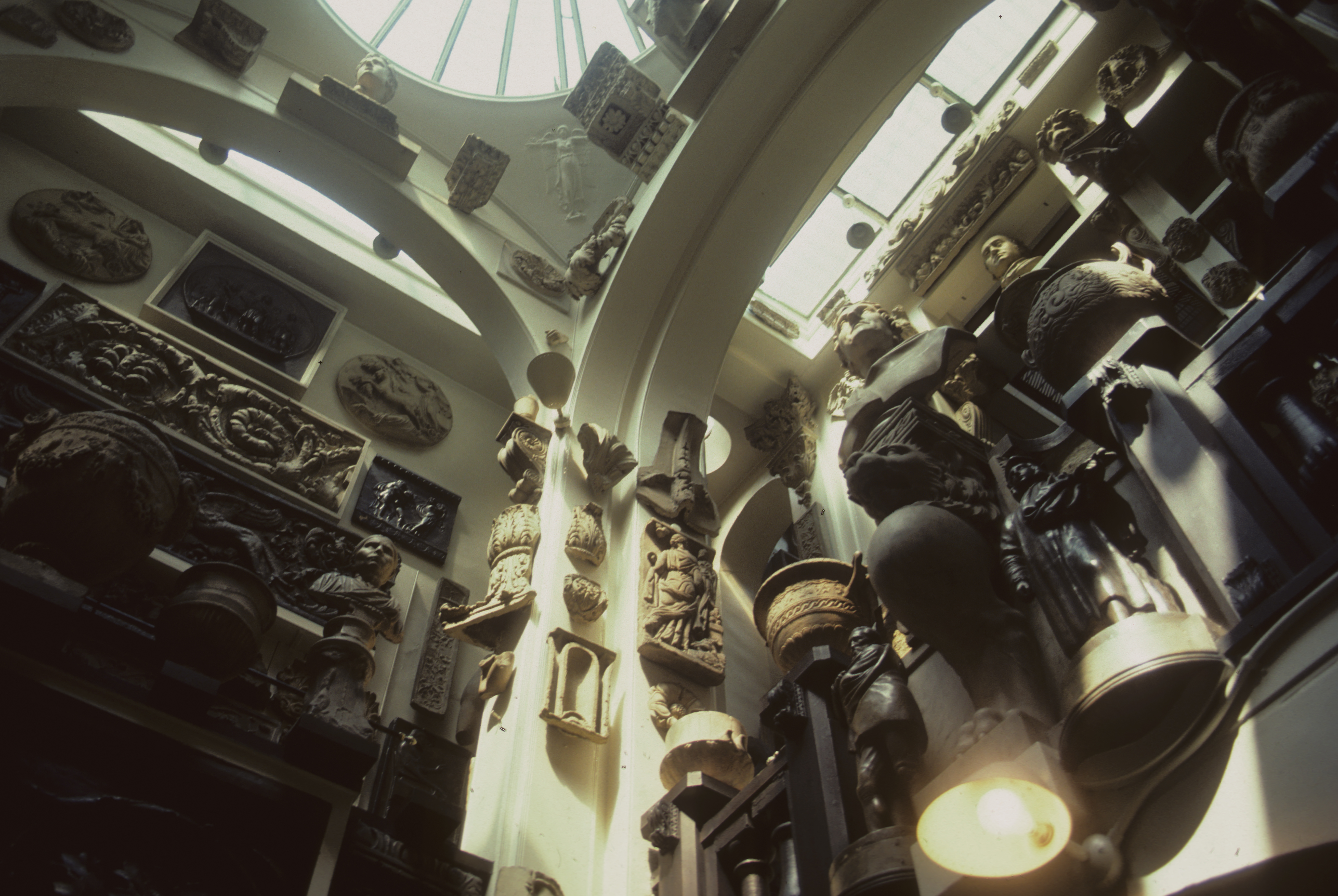 Sculpture gallery, the Soane Museum, London